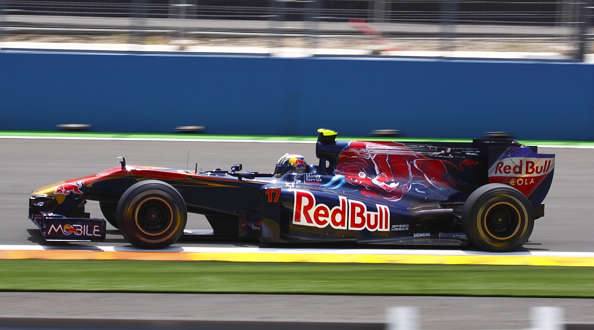 Jaime Alguersuari in the 2010 European Grand Prix.